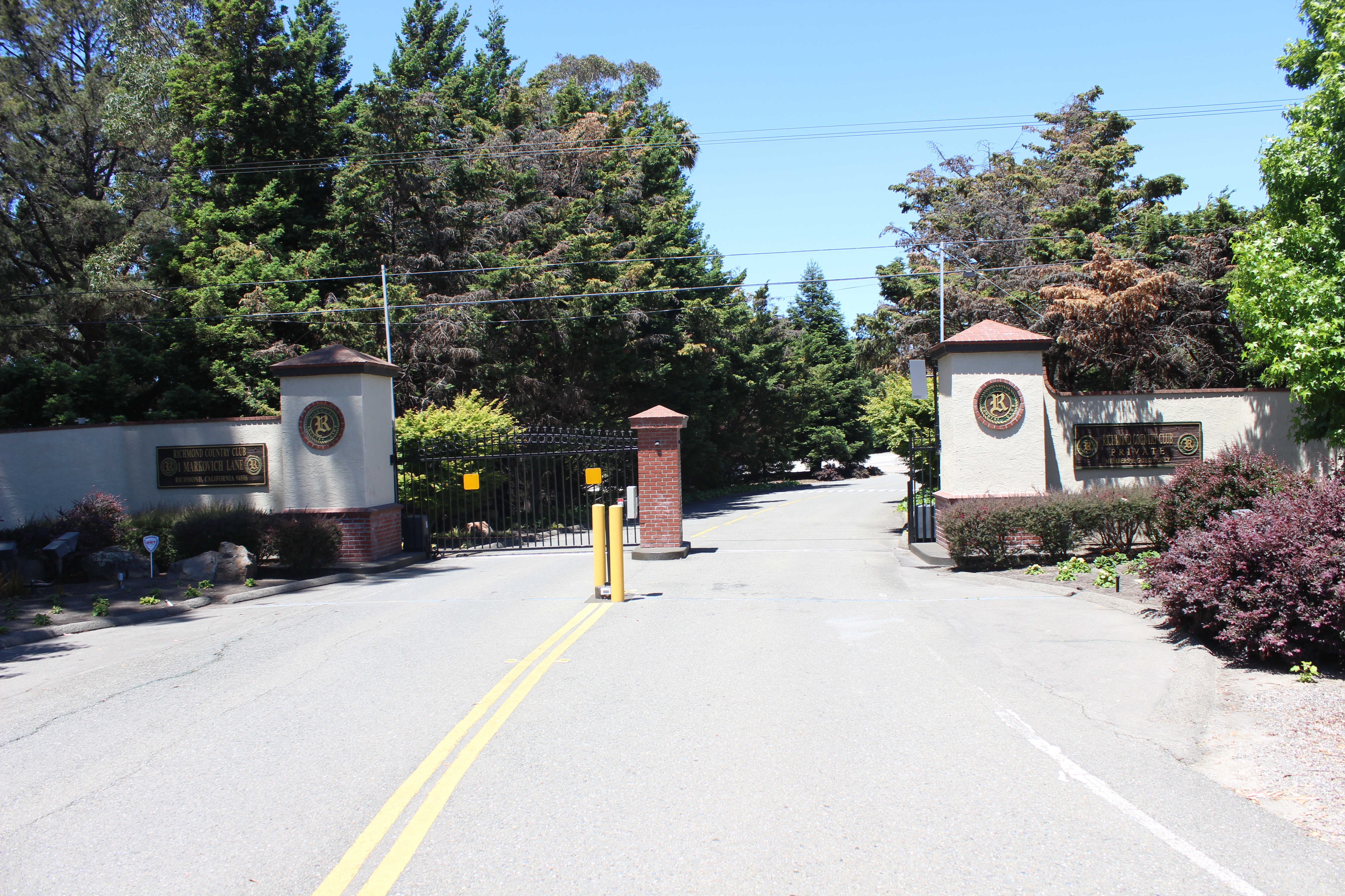 Front gate of Richmond Country Club in Richmond, California